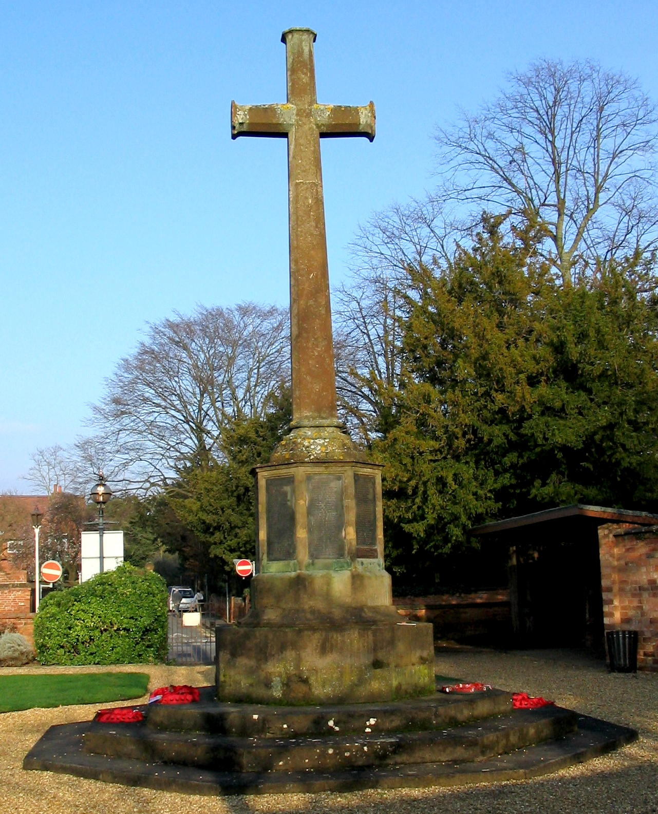 War memorial in Stratford-upon-Avon, Warwickshire, England. The plaques around the base of this cross bear the names of the town's dead from the Great War (1914–1918). A nearby wall lists those who died in the Second World War (1939–1945). Both memorials are situated in a garden near to Holy Trinity Church and the River Avon. War memorials similar to this one can be found in most towns and villages in England and many other European countries. In this picture, wreaths of poppies can be seen. These are laid annually as part of ceremonies held across Britain to mark Remembrance Sunday or Armistice Day. Photograph taken by Trilobite on 16 February 2004, mid-afternoon.